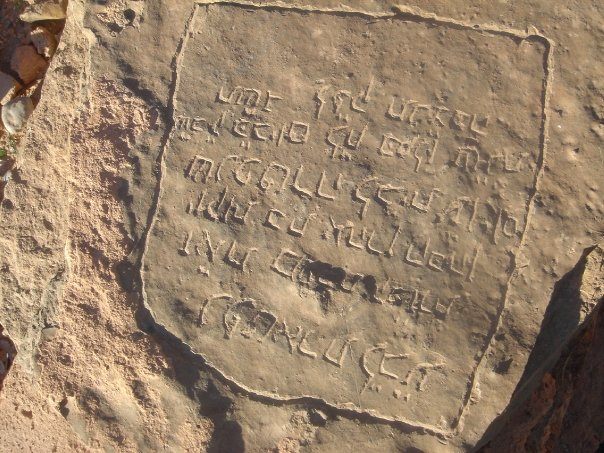 Jewish gravestone in Figuig, Morocco.